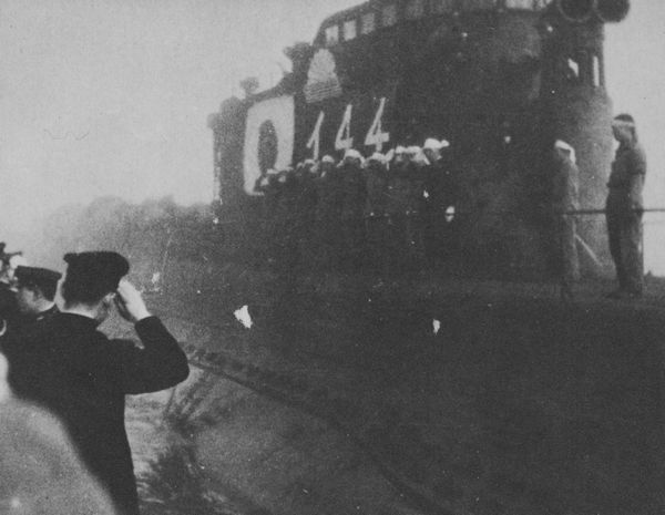 HIJMS I-44